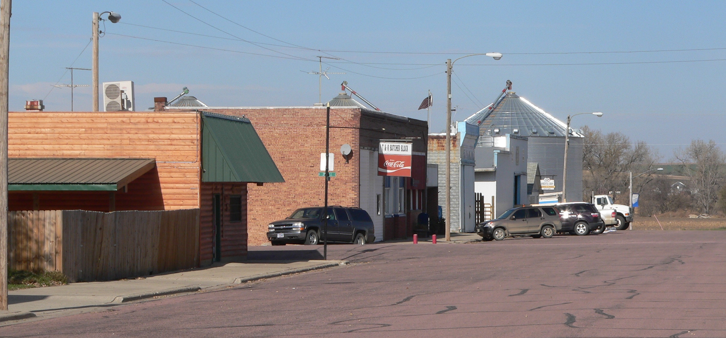 Downtown Fordyce, Nebraska: west side of Main Street, looking northwest from between 2nd and 3rd Street.